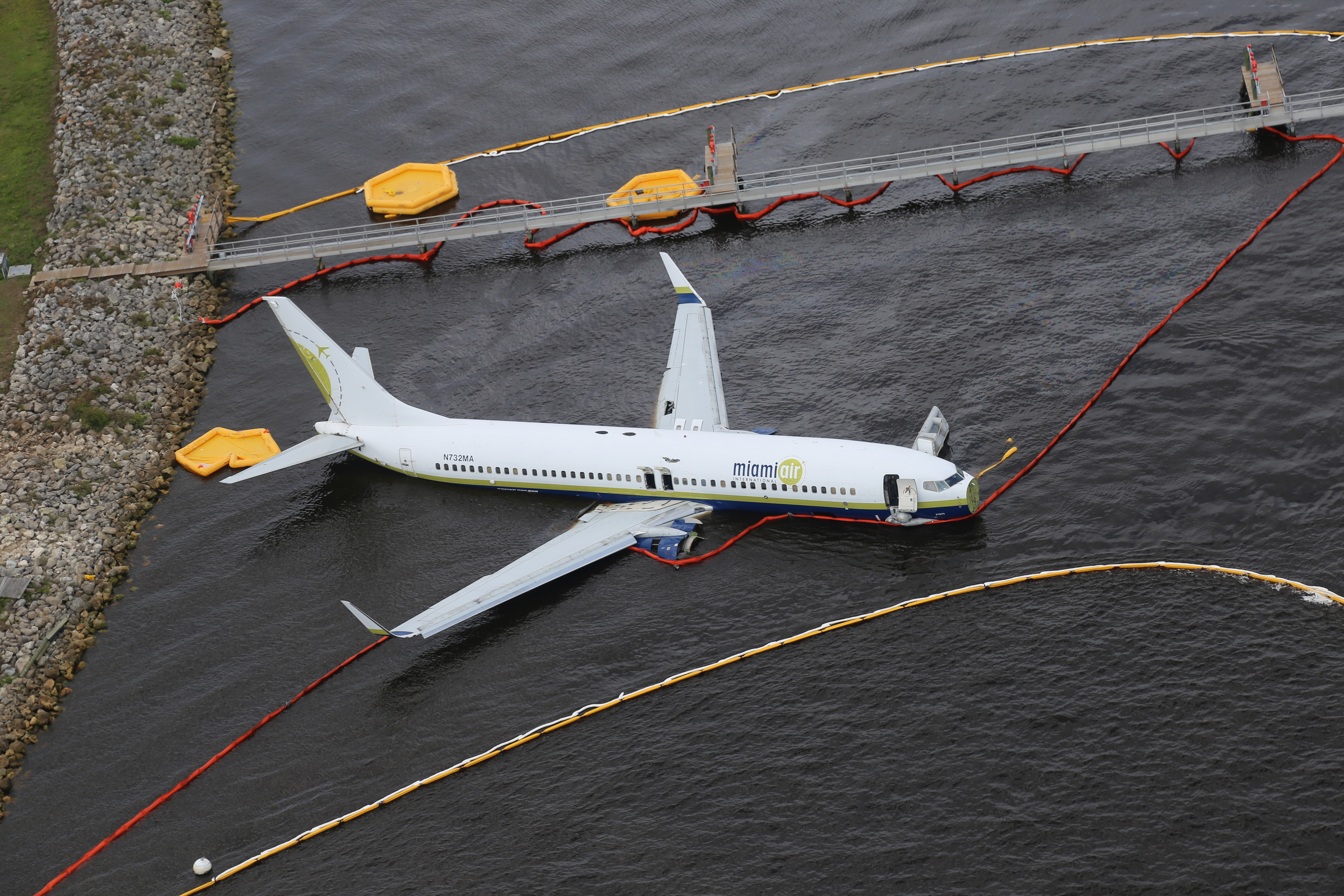 JACKSONVILLE, Florida (May 4, 2019) – The NTSB is investigating the runway overrun of a Miami Air International Boeing 737-800 that overran the runway at Naval Air Station Jacksonville and came to rest in the St. Johns River in Jacksonville, Florida, on May 3, 2019. (NTSB photo by Eric Weiss)